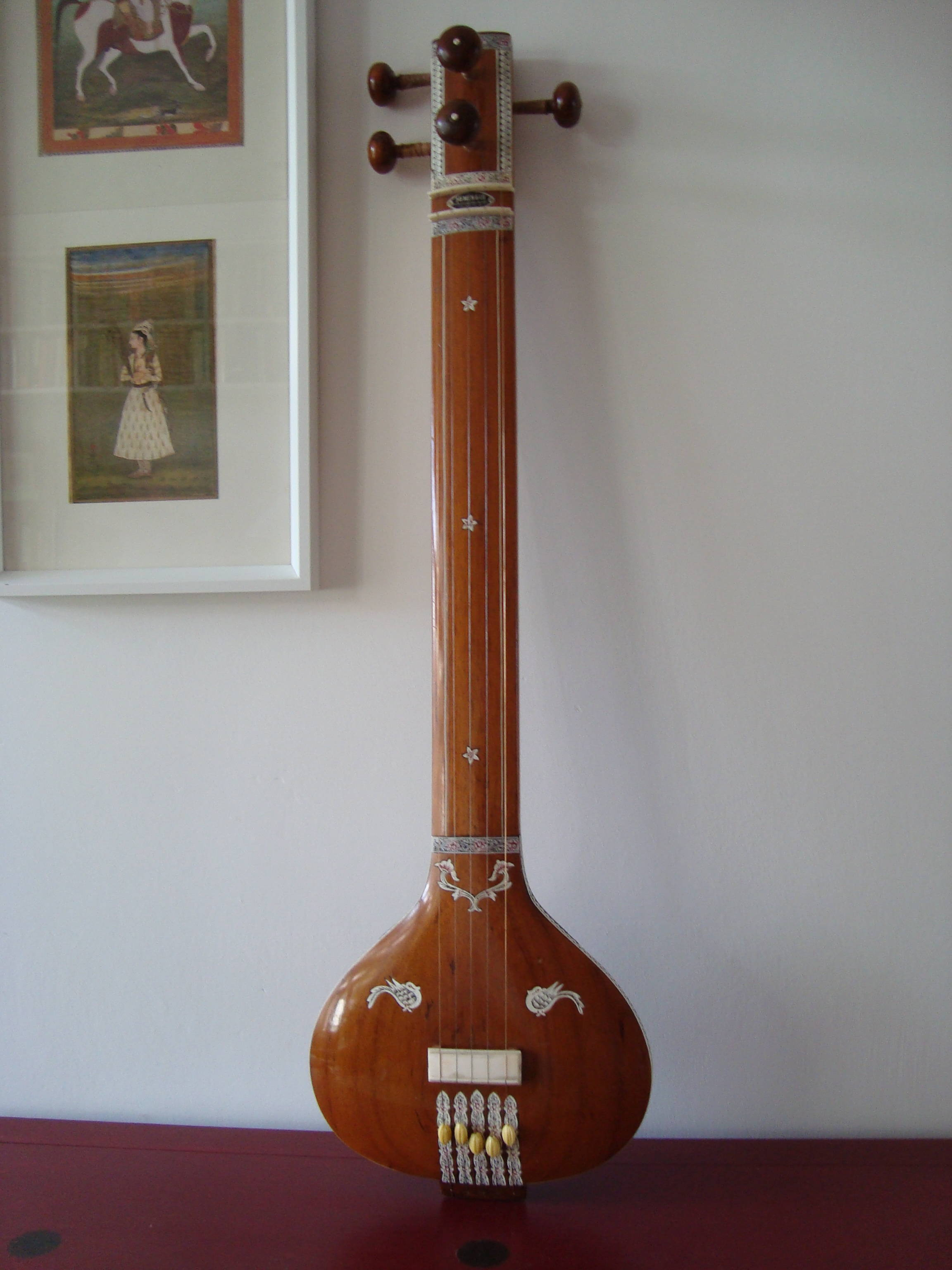 5-string Hemen & Co. instrumental Tamburi, for accompanying Sitar or Sarod